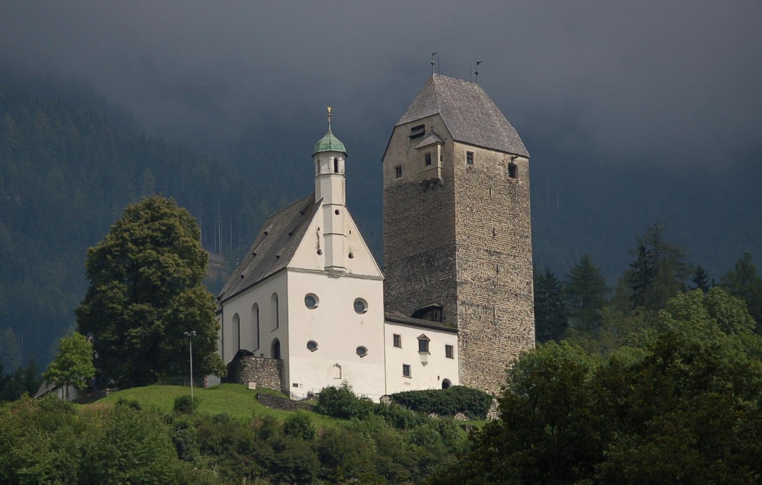 Freundsberg castle, located above Schwaz, Tyrol